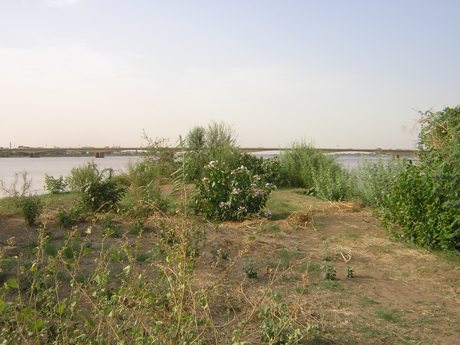 Confluence of White and Blue Nile from Tuti Island, Khartoum, Sudan.